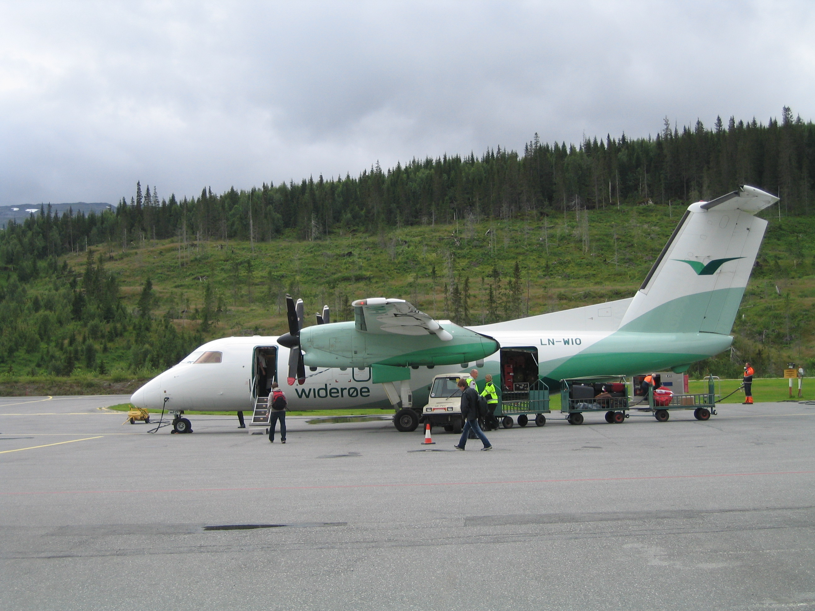 Dash 8 from Widerøe during boarding on Mosjøen Airport, Norway. Picture by user:ZorroIII.